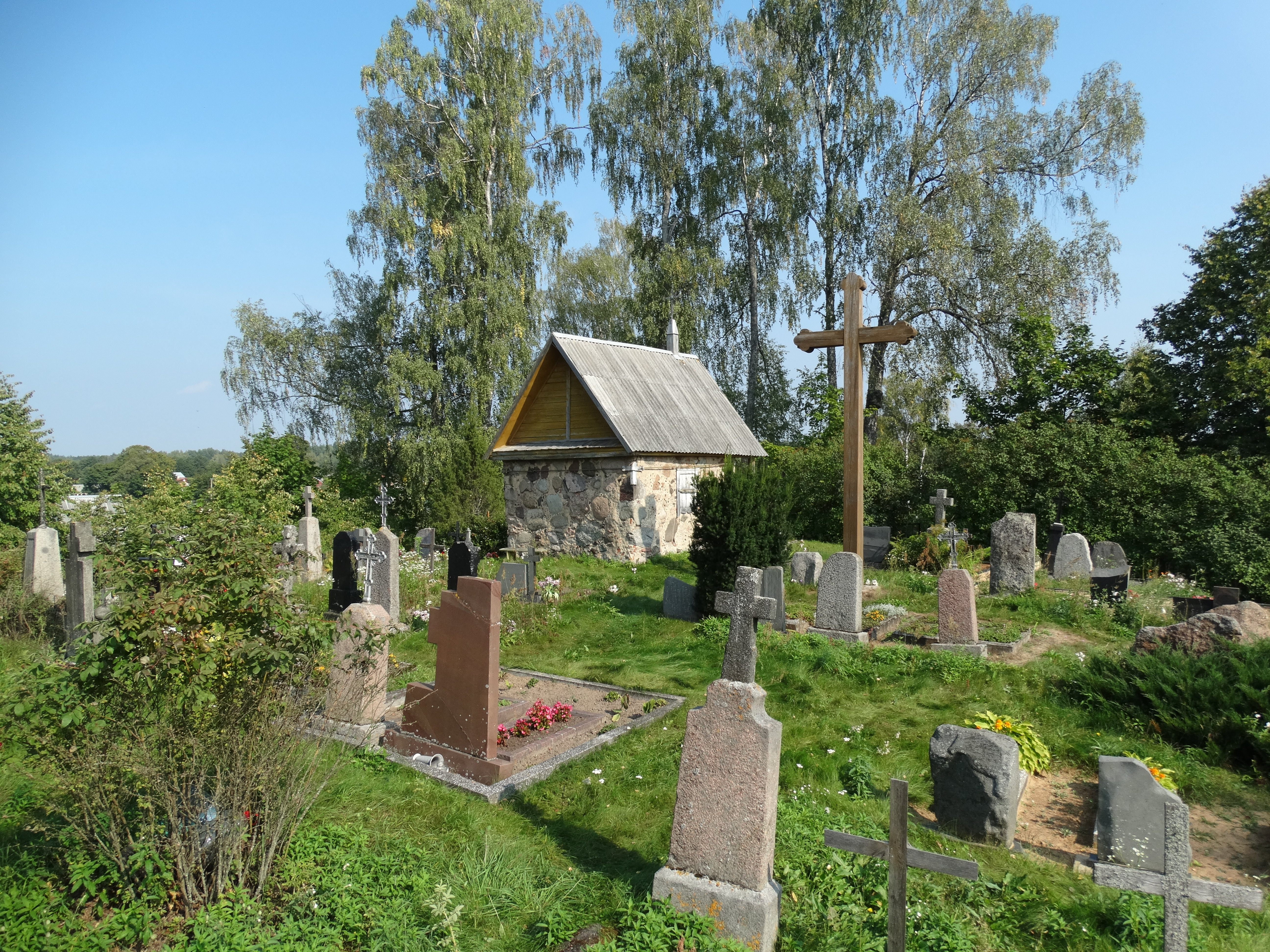 Cemetery in Magūnai, Visaginas Municipality, Lithuania